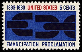 The Emancipation Proclamation was commemorated with a 5-cent stamp on the 100th anniversary of the Emancipation Proclamation on August 16, 1963. It was the opening day of the Century of Negro Progress Exposition in Chicago, Illinois. This stamp was designed by Georg Olden picturing a severed link in a massive black chain against a blue background.